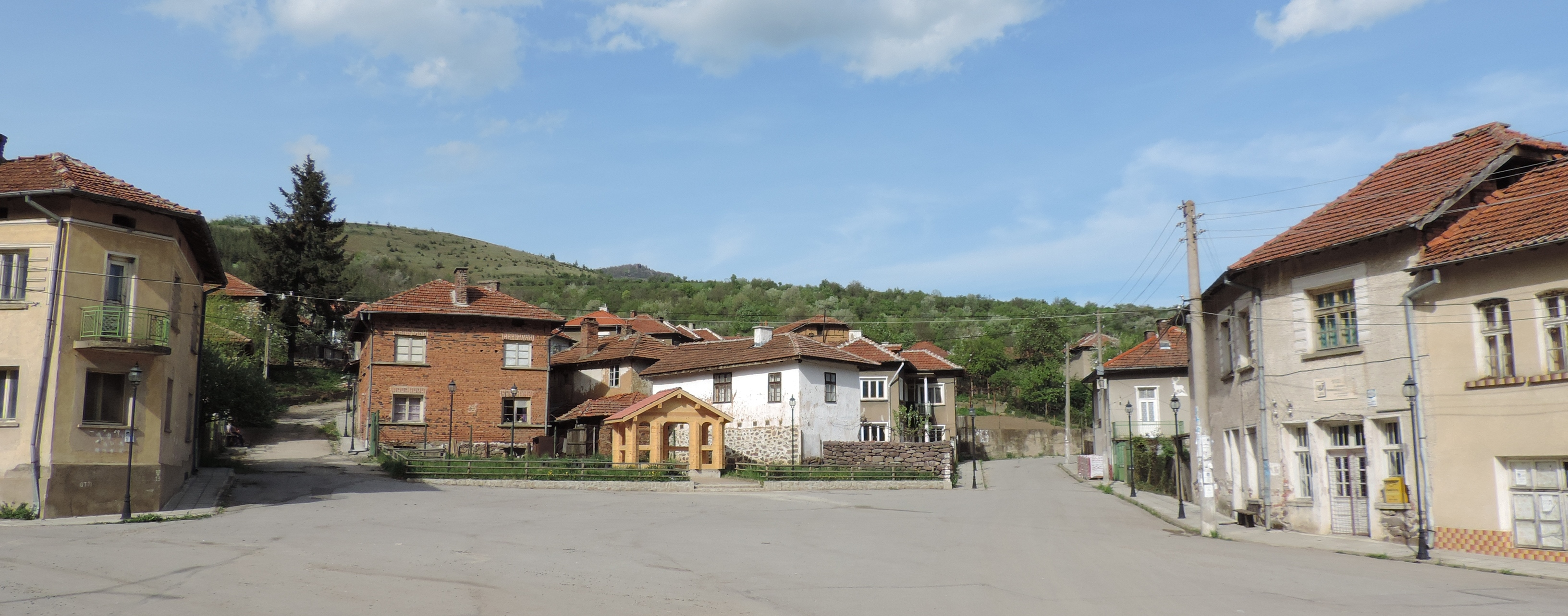 The centre of village Martinovo, Montana Province, Bulgaria